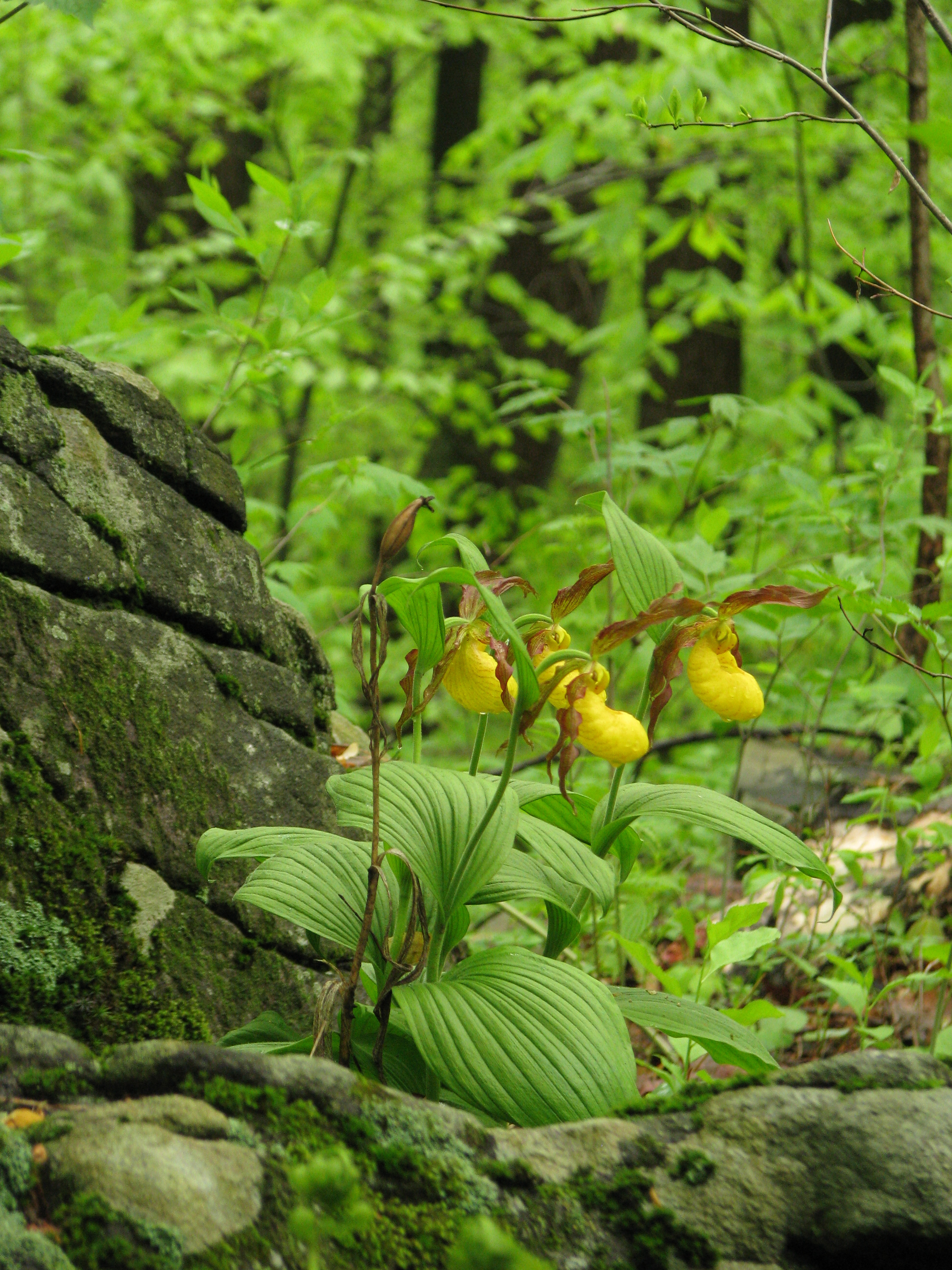 I juast have to visit them every year